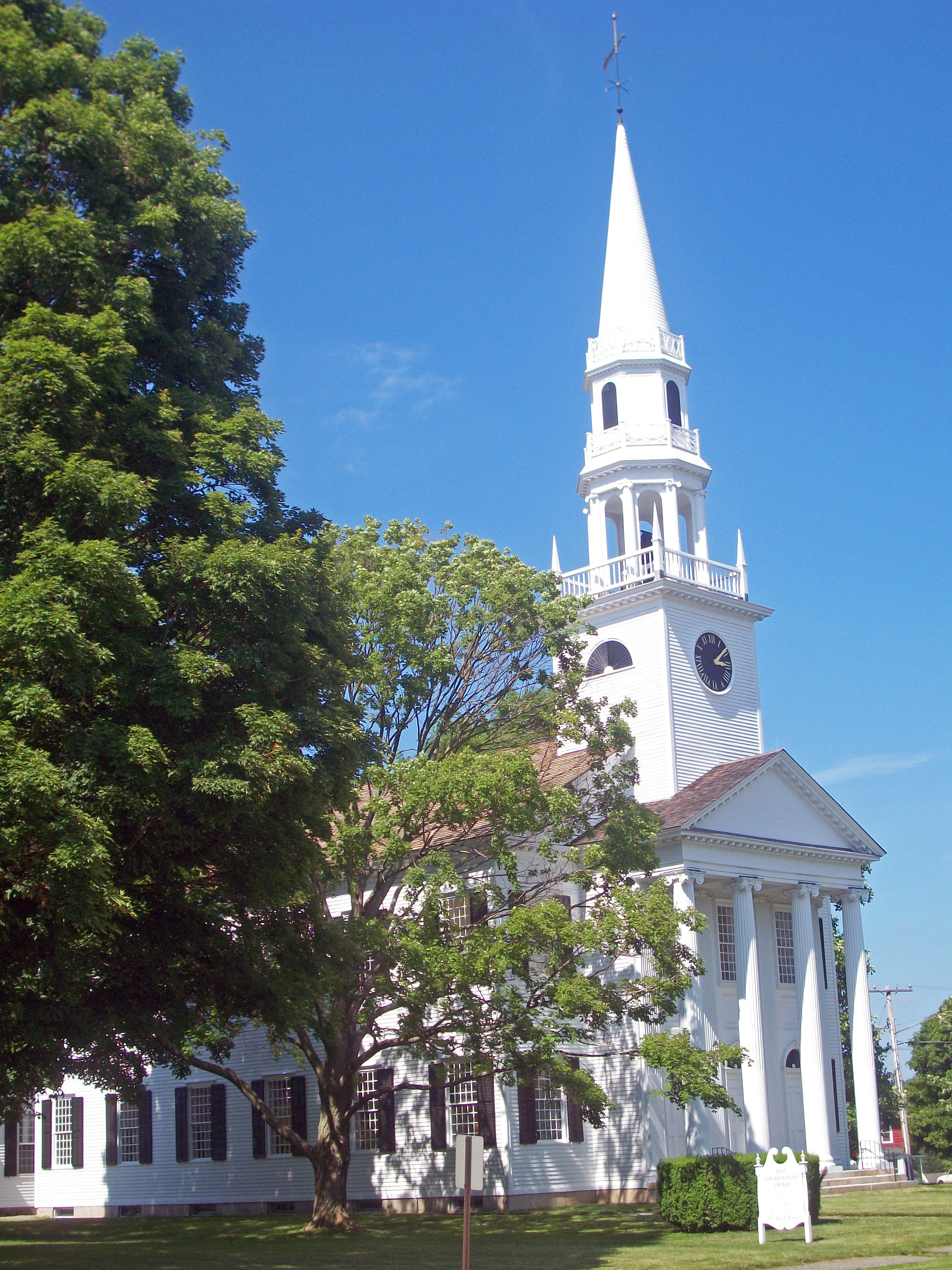 First Congregational Church, the dominant building in Litchfield, CT, USA, and a contributing property to the Litchfield Historic District, a National Historic Landmark.